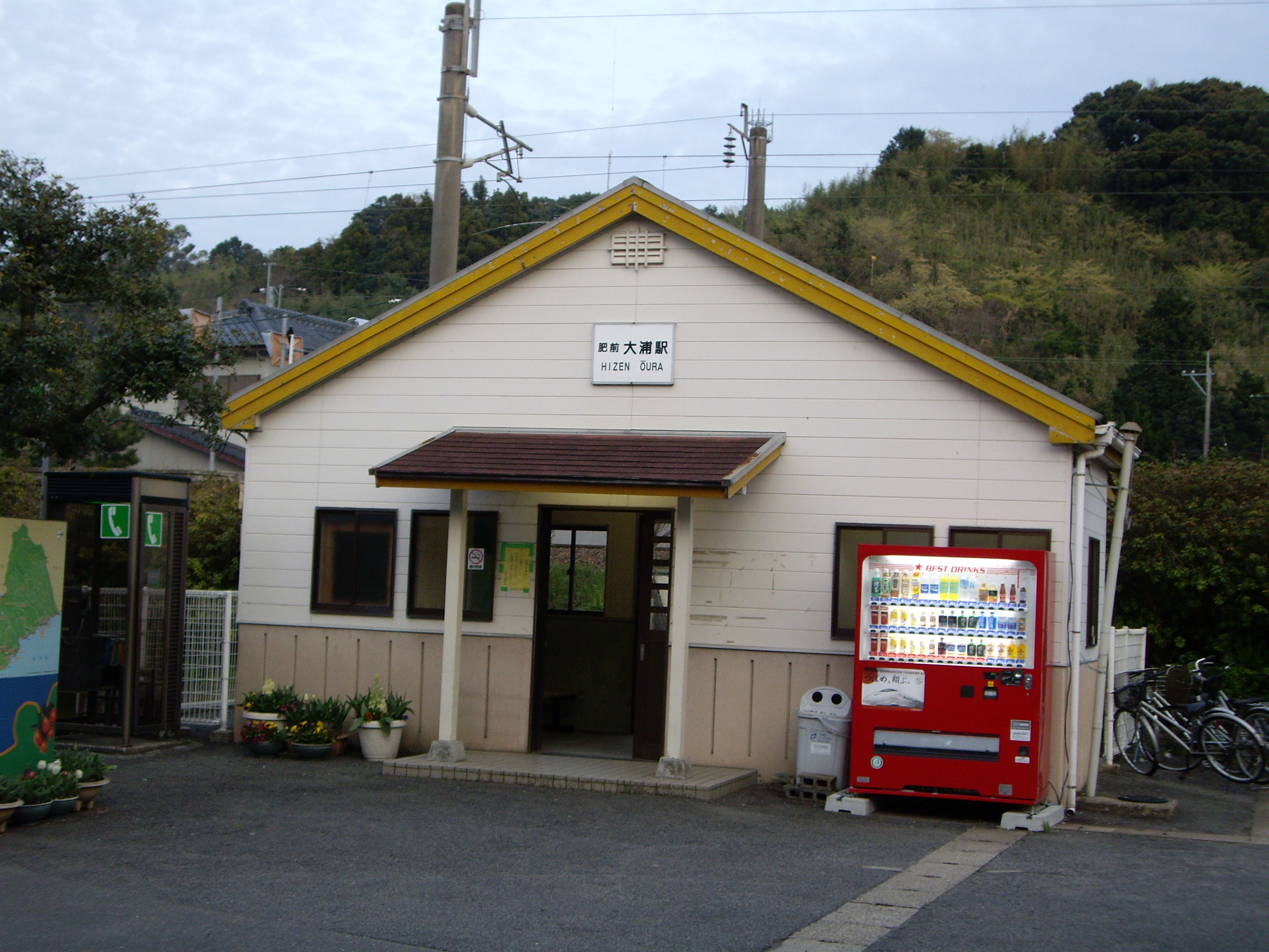 Hizen-Ooura Station(肥前大浦駅)